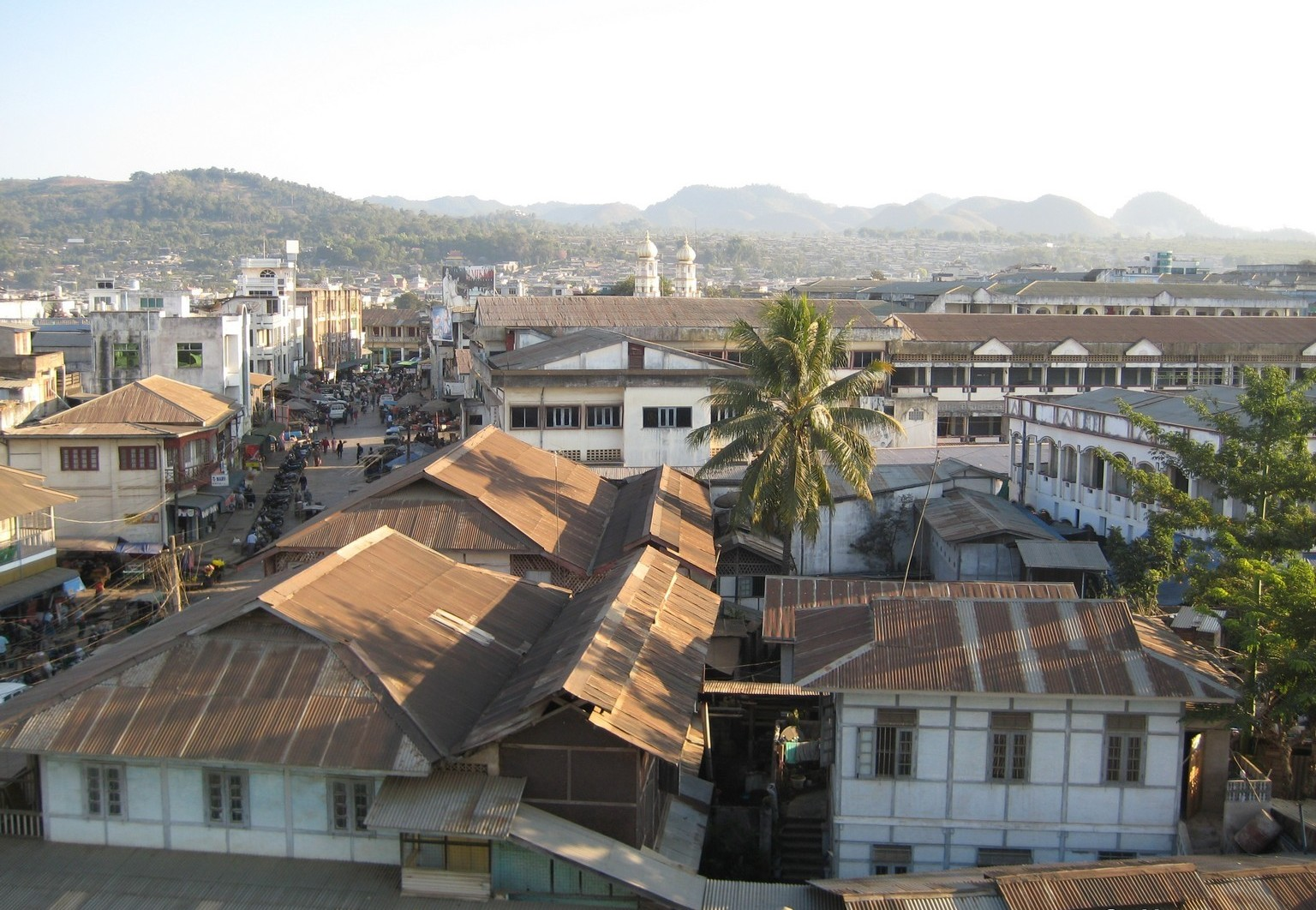 Lashio, Shan State